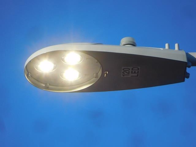 yah stckkk